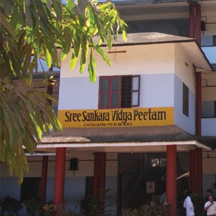 Sree Sankara Vidya Peetam, CBSE School